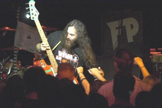 Steve Lieberman gets love from his fans at the Downtown 9 3 2005